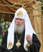 Yury Luzhkov and Patriarch Alexius II.